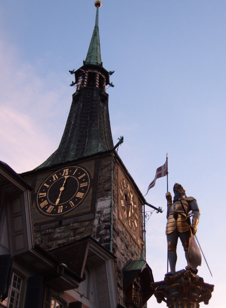 Zeitglockenturm and fountain figure, Solothurn (Switzerland)